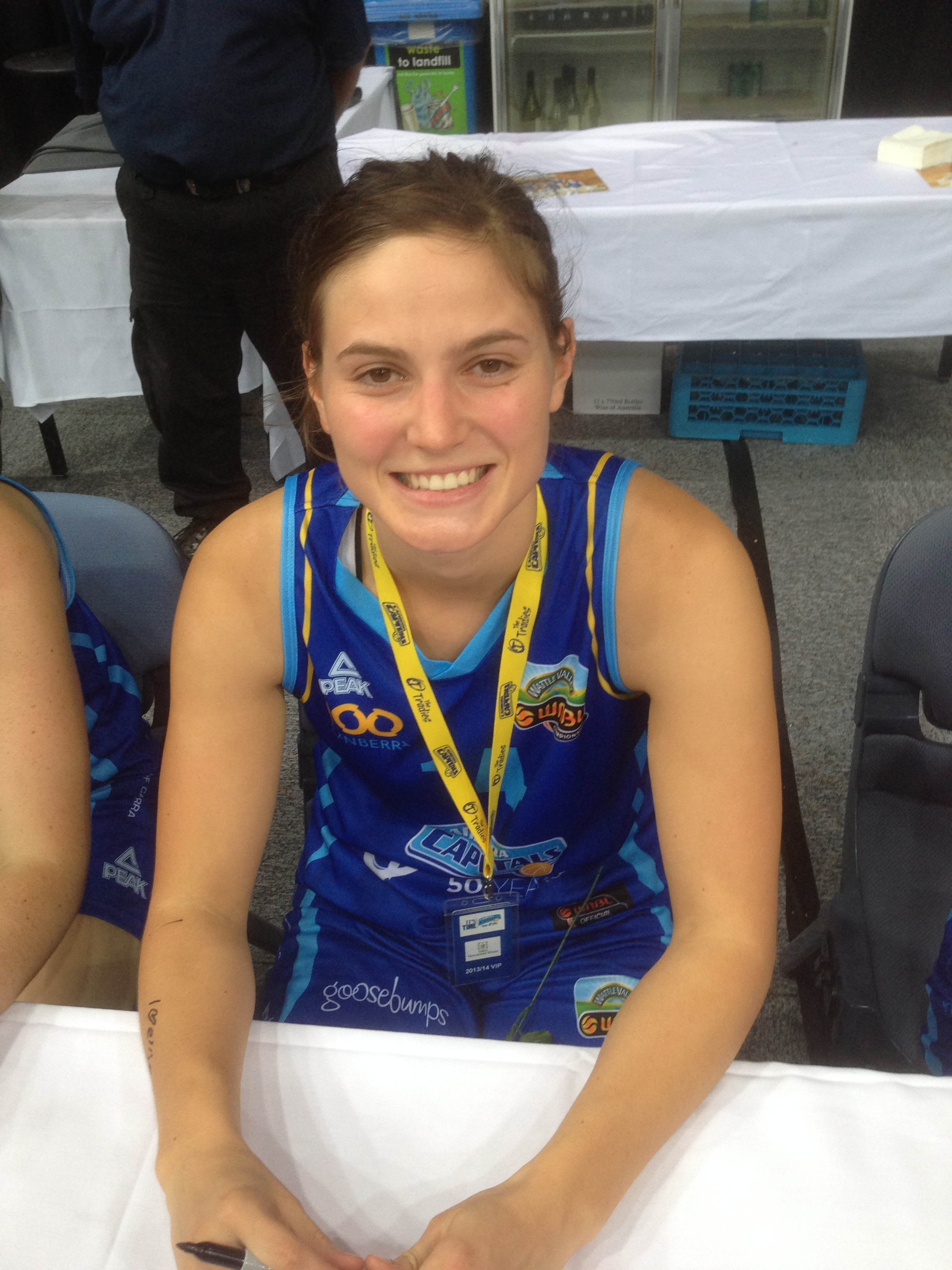 Canberra Capitals No 14 Isabelle Strunc